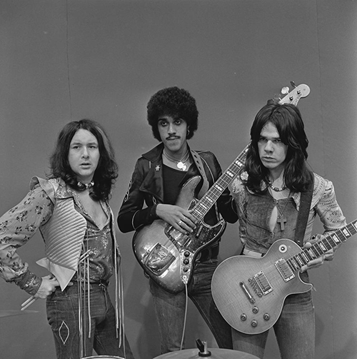 Thin Lizzy in AVRO's TopPop (Dutch television show) in 1974